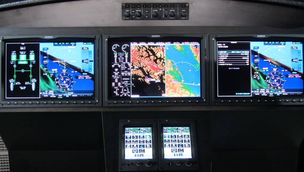 HondaJet Garmin Avionics